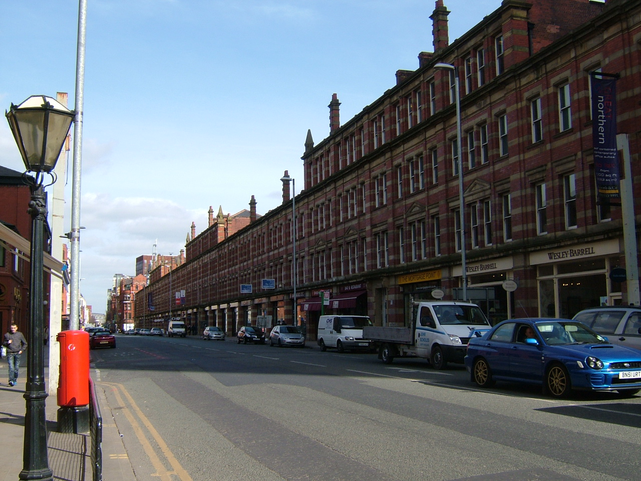 Manchester: The Deansgate frontage of the Great Northern Railway Warehouse